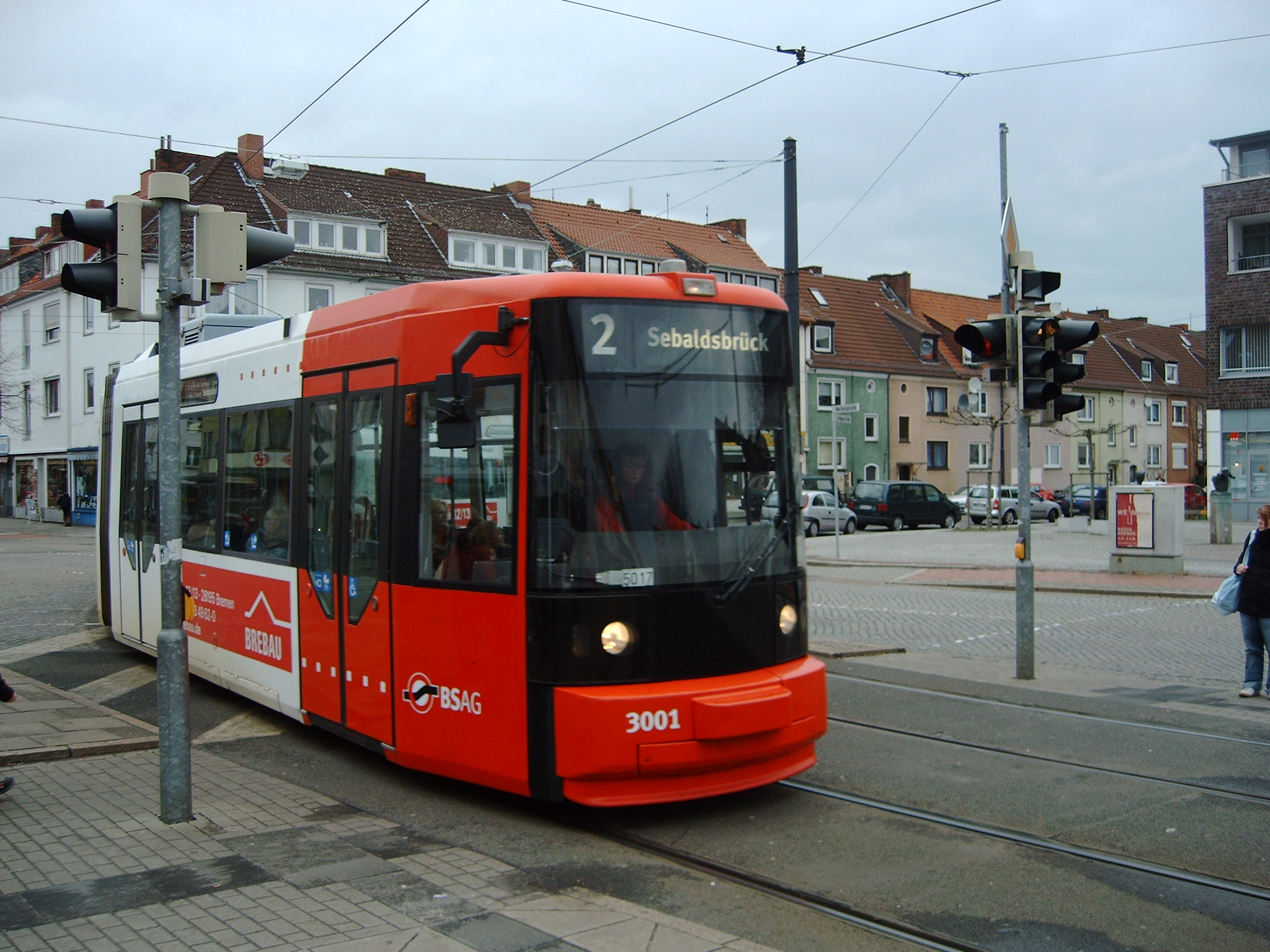 Tram in Bremen, BSAG Company